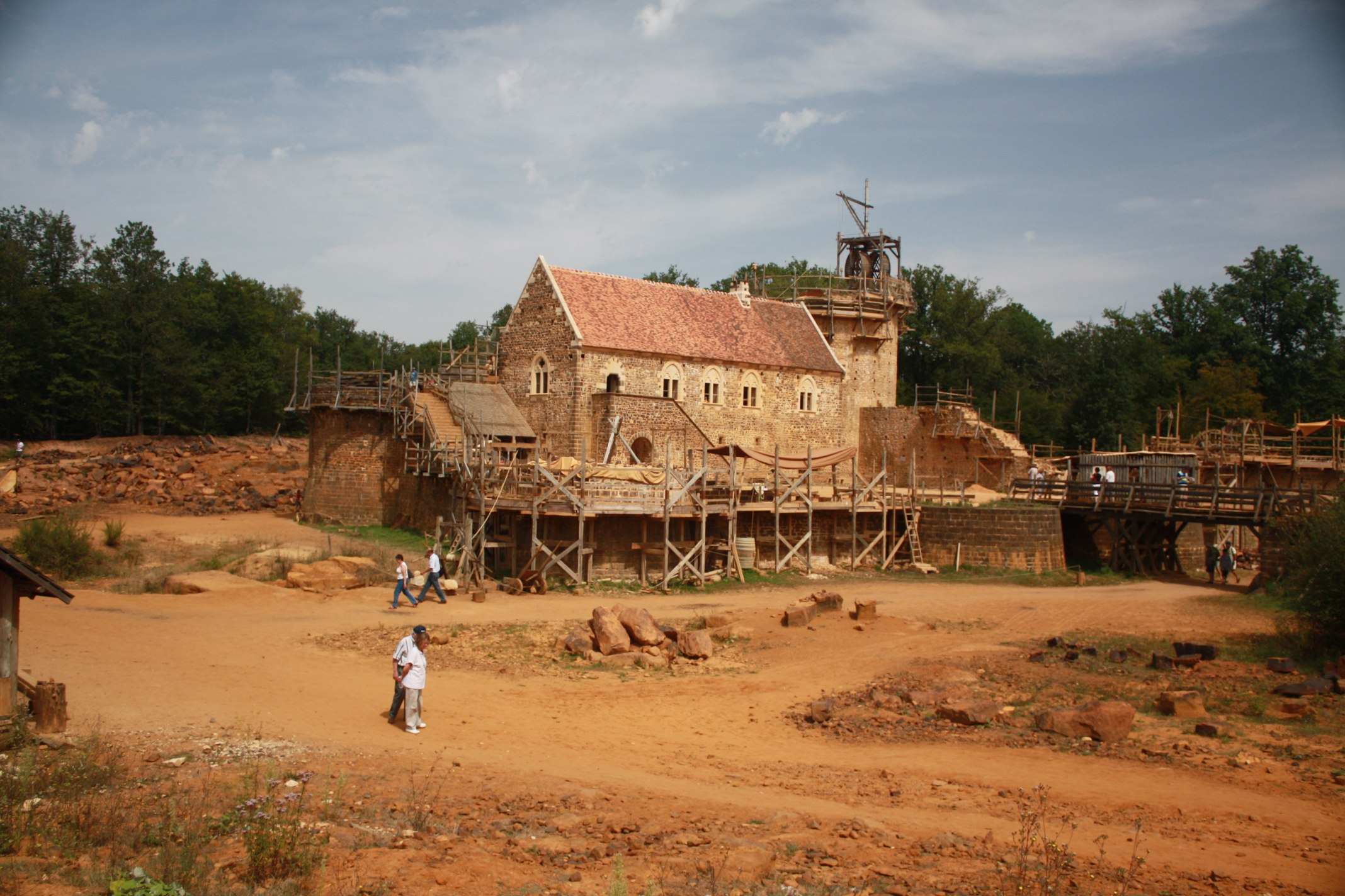 The construction of Guédelon Castle in France